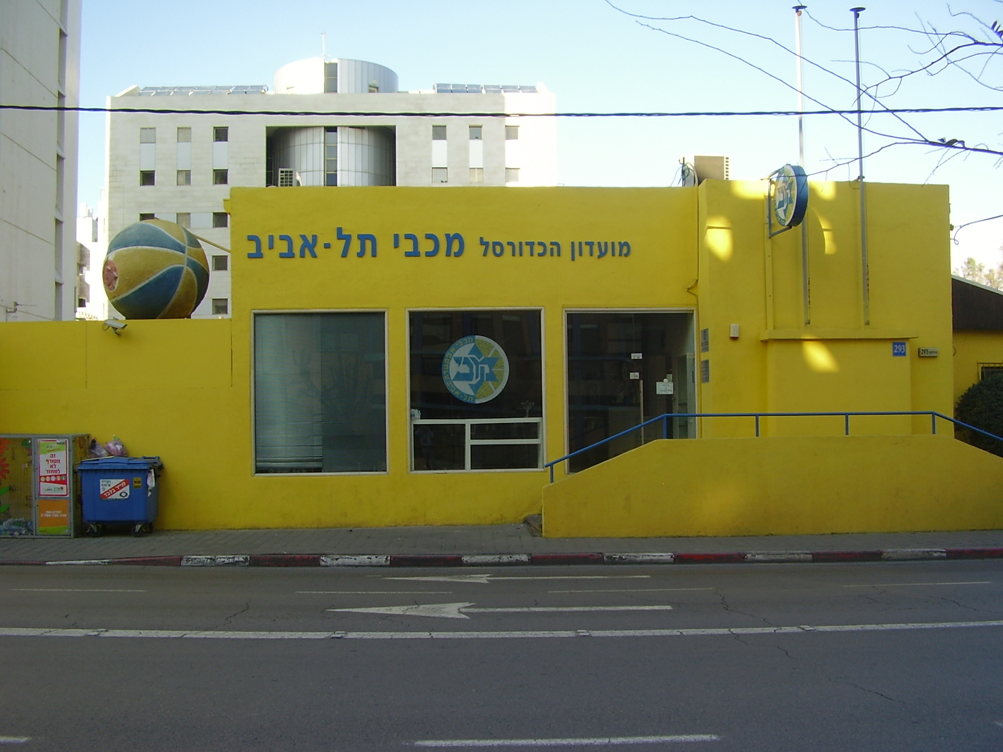 benjamin house in tel aviv